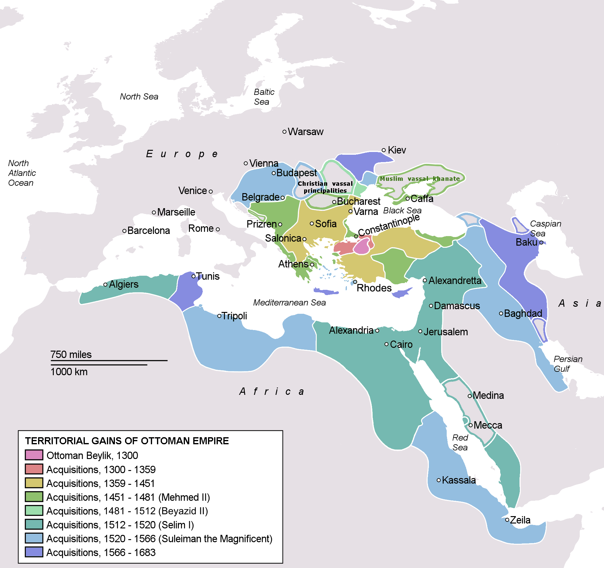 Map depicting the Ottoman Empire at its greatest extent, in 1683.